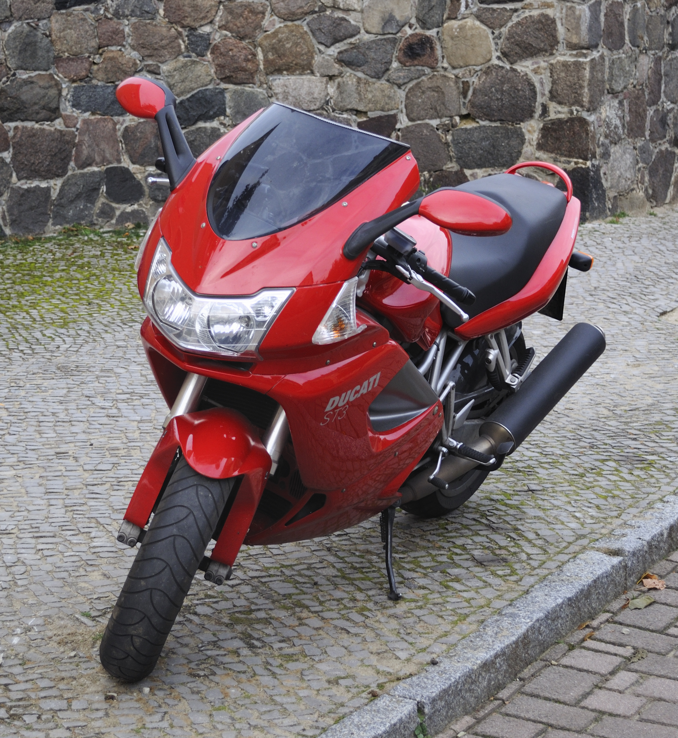 Picture taken in Bad Freienwalde.